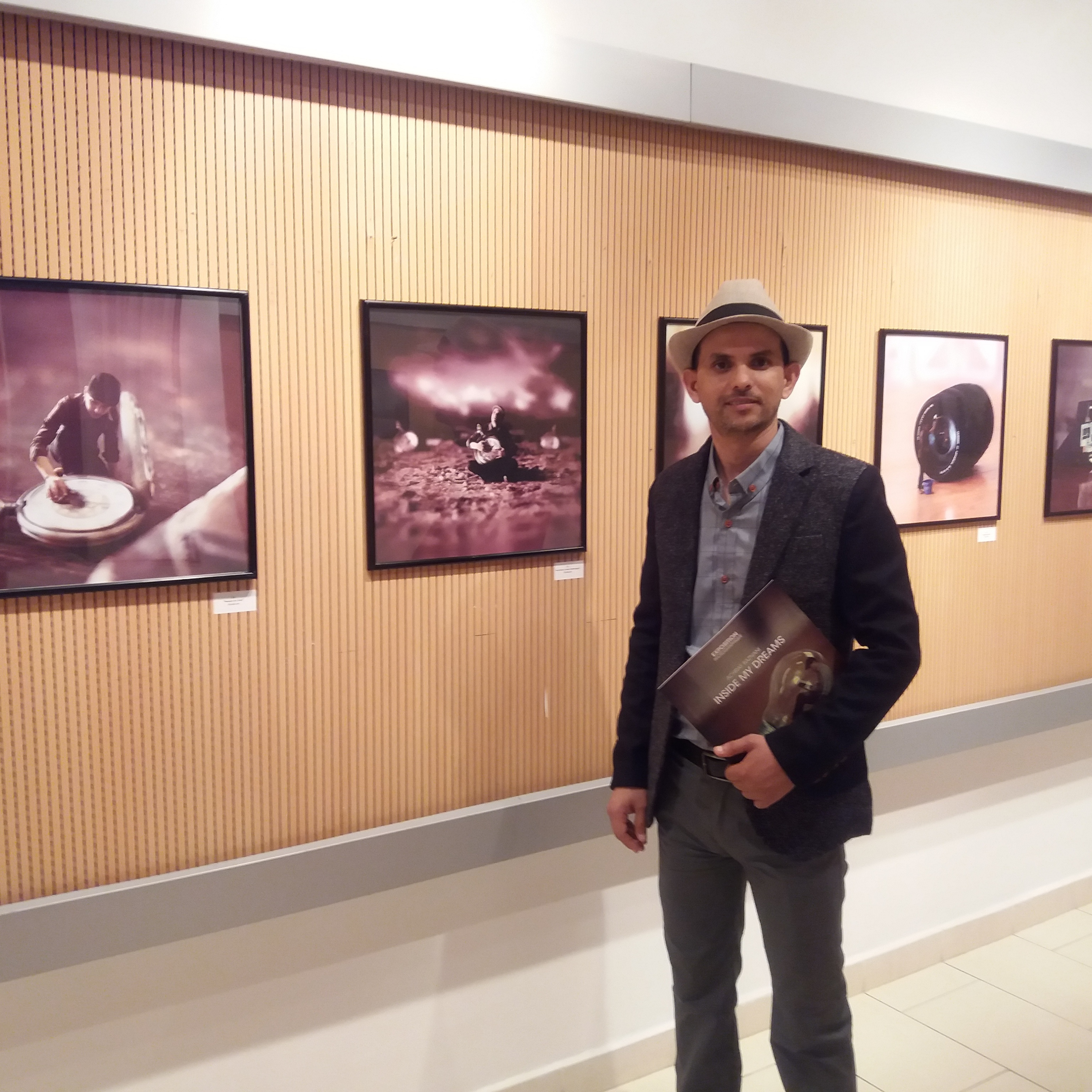 Achraf Baznani, Solo Exhibition